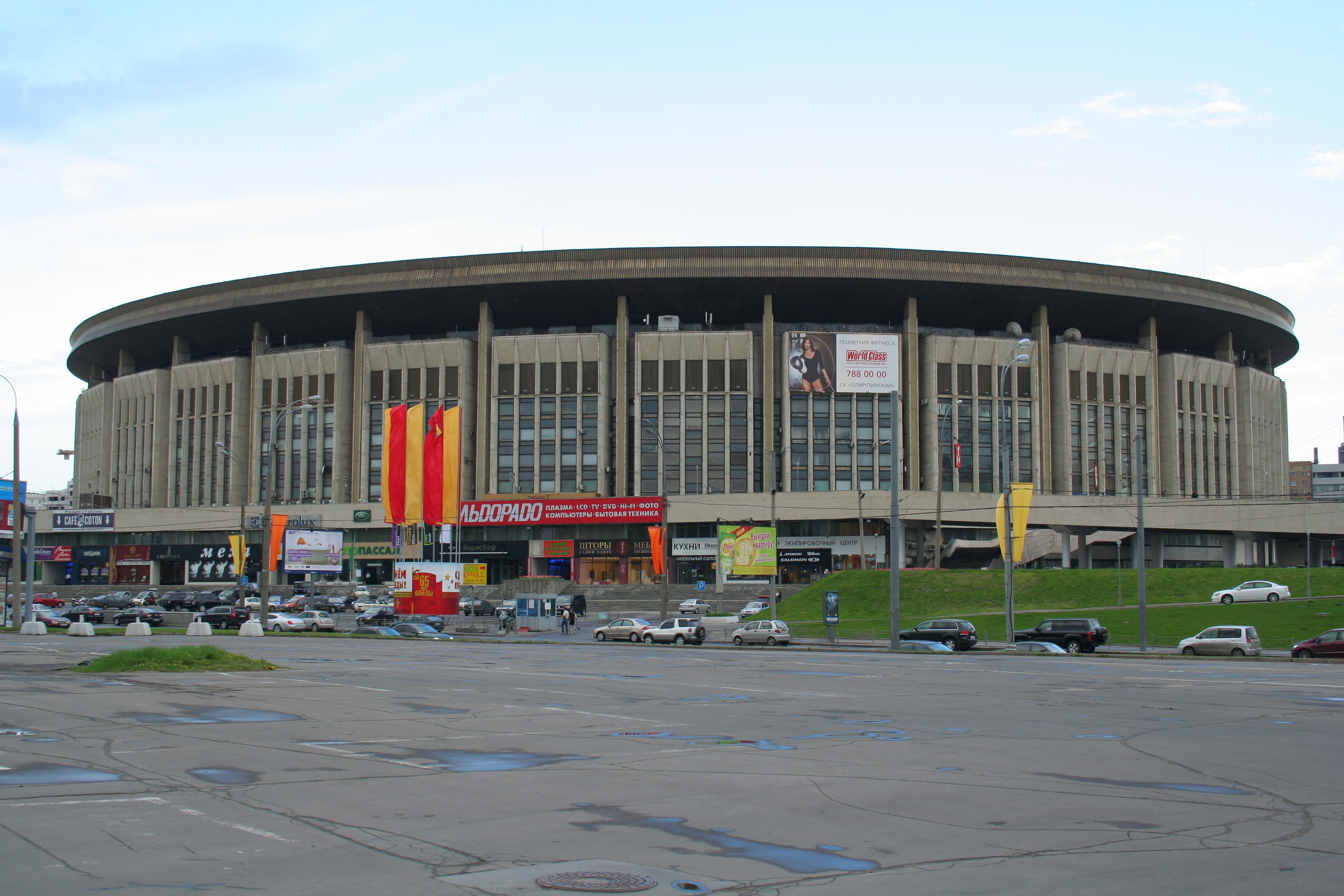 The Olimpiyskiy Hall in Moscow.